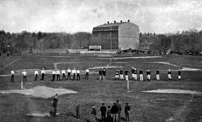 1874 Harvard-McGill football game. From the book "Football - The American Intercollegiate Game", written by Parke H. Davis.